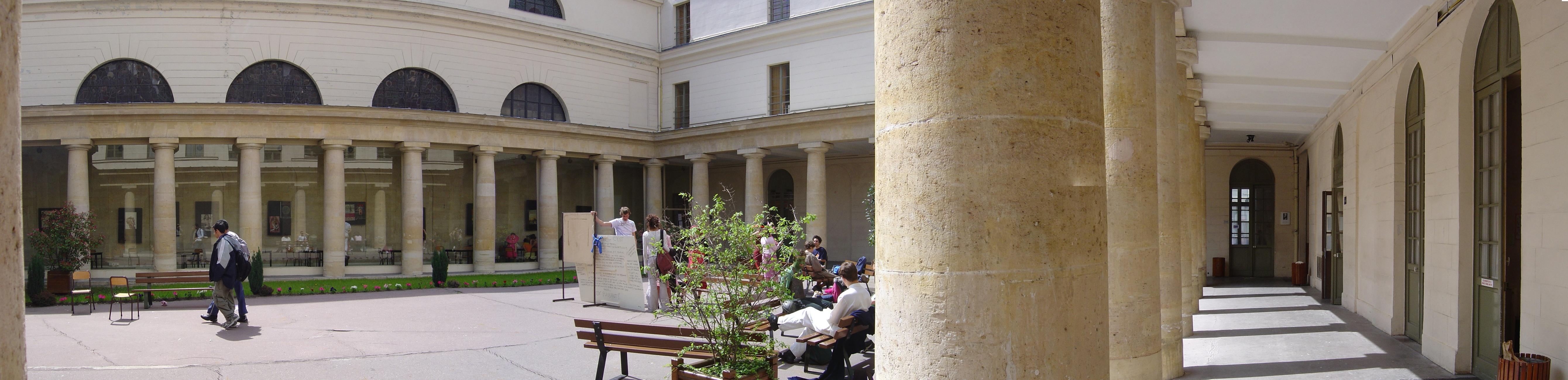 Courtyard of Lycée Condorcet (Paris, France)